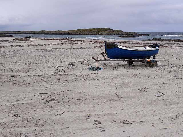 Western end of Traigh Ghrianal The island of Eilean Ghreasamuill beyond.